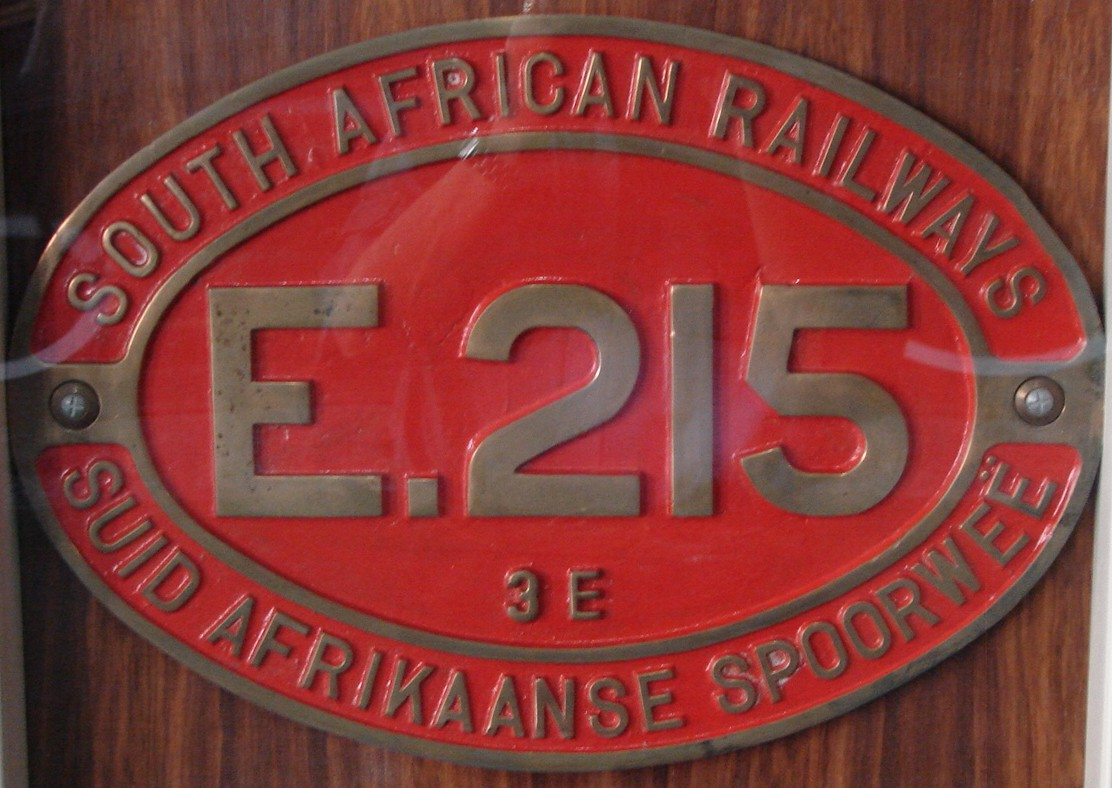 SAR Class 3E E215 number plate Builder's Number: MV 7239Location: George, Western Cape